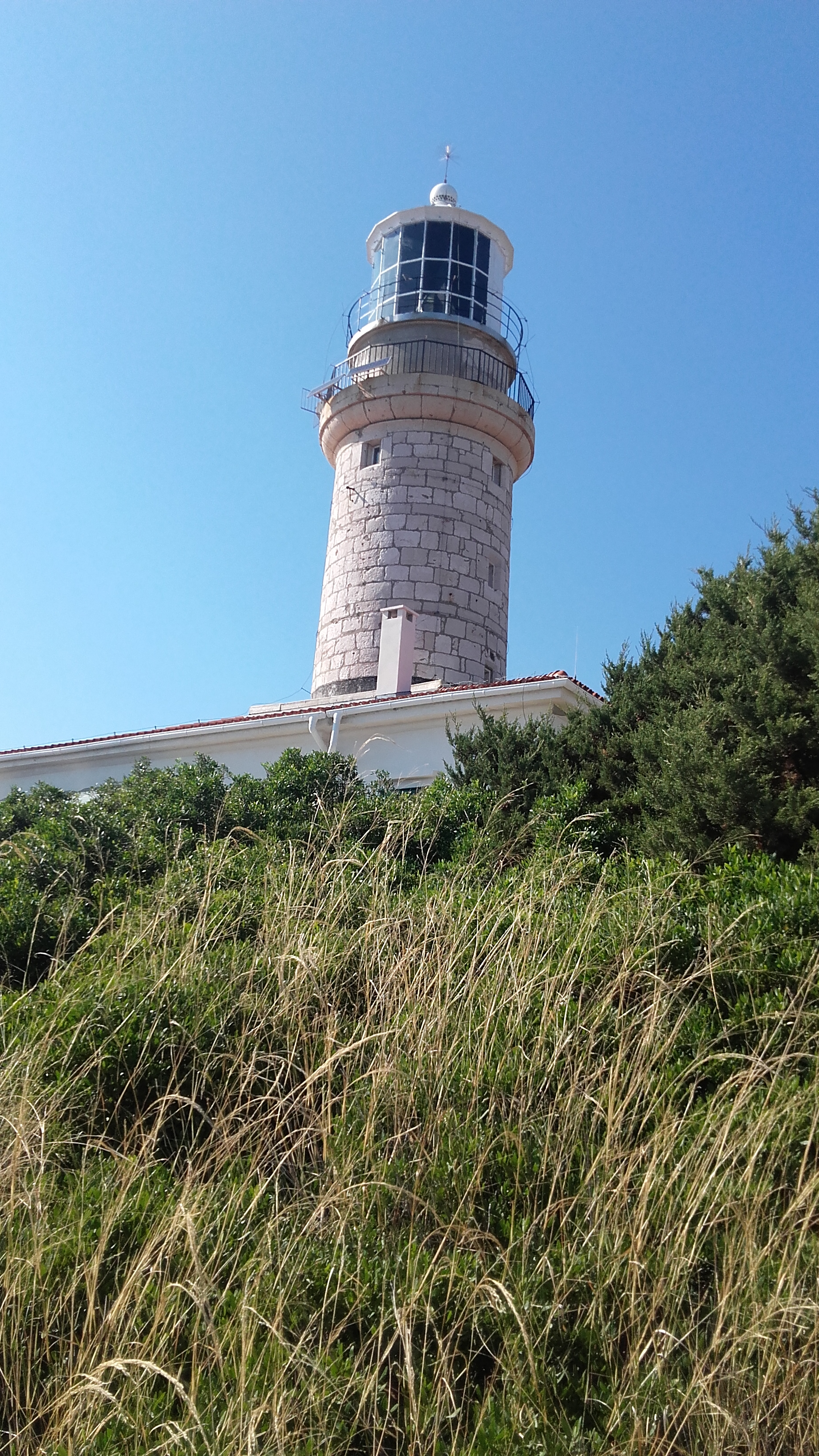 A view from the bottom.